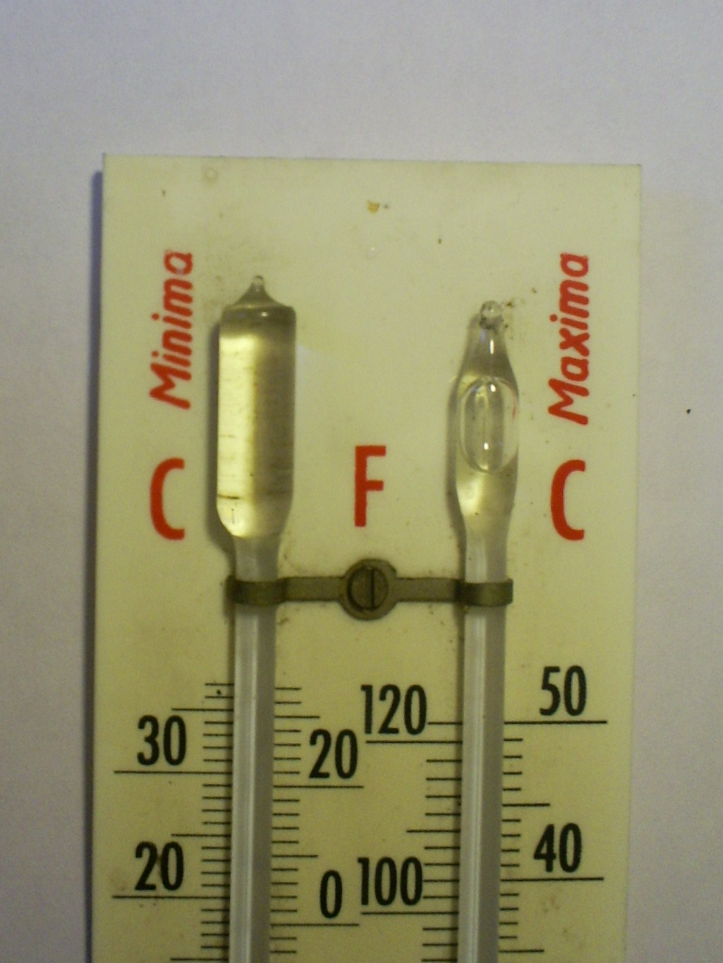 Detail of the thermometer bulbs of the Max Minimum Thermometer shown at Commons File:Max Min Thermometer.JPG. To further illustrate the encyclopedia article. The left hand (minimum arm) bulb contains alcohol . The right hand (maximum arm) bulb contains alcohol and a bubble of low pressure gas or alcohol vapour.